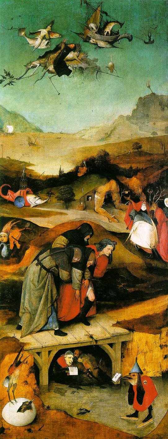 Inner left wing of a triptych depicting The Temptation of Saint Anthony.